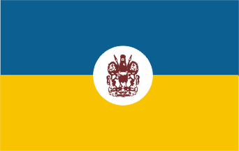 Modern flag of Toro, drawing